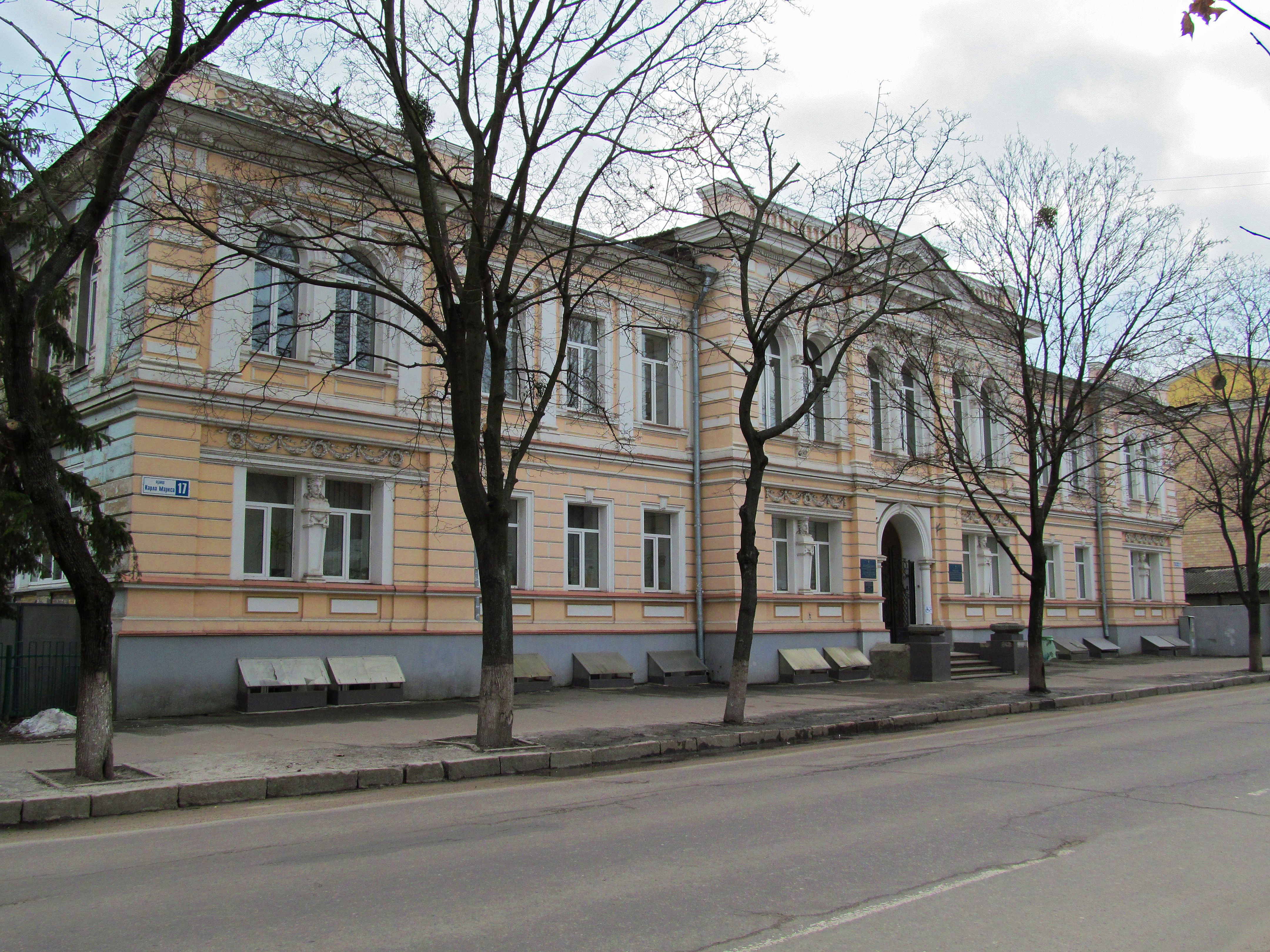 Blagovishchenska Street, 17, Kharkiv, Ukraine. Skin and Venereal Diseases Dispensary.